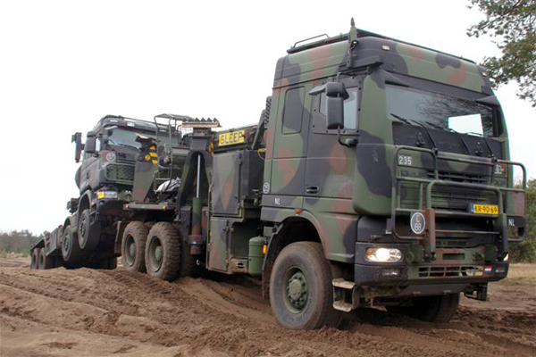 DAF YBB-95.480 army recovery vehicle, towing another truck